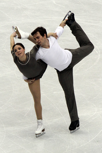 2010 Winter Olympics figure skating - Jessica Dubé and Bryce Davison